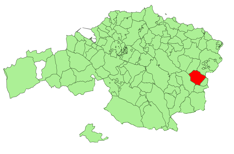 Mallabia municipality in the province of Biscay